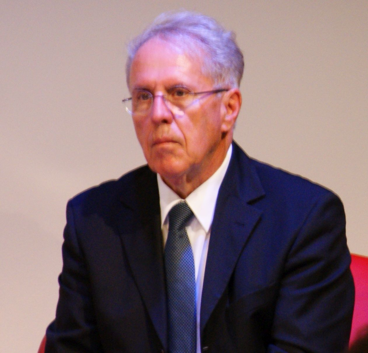 Social Conference of the Austrian Pensioners' Association (PVOe) in the Trade Union House of the Austrian Trade Union Confederation (OeGB) in Vienna on 3 September 2019. In the picture: Guenter Lampert.